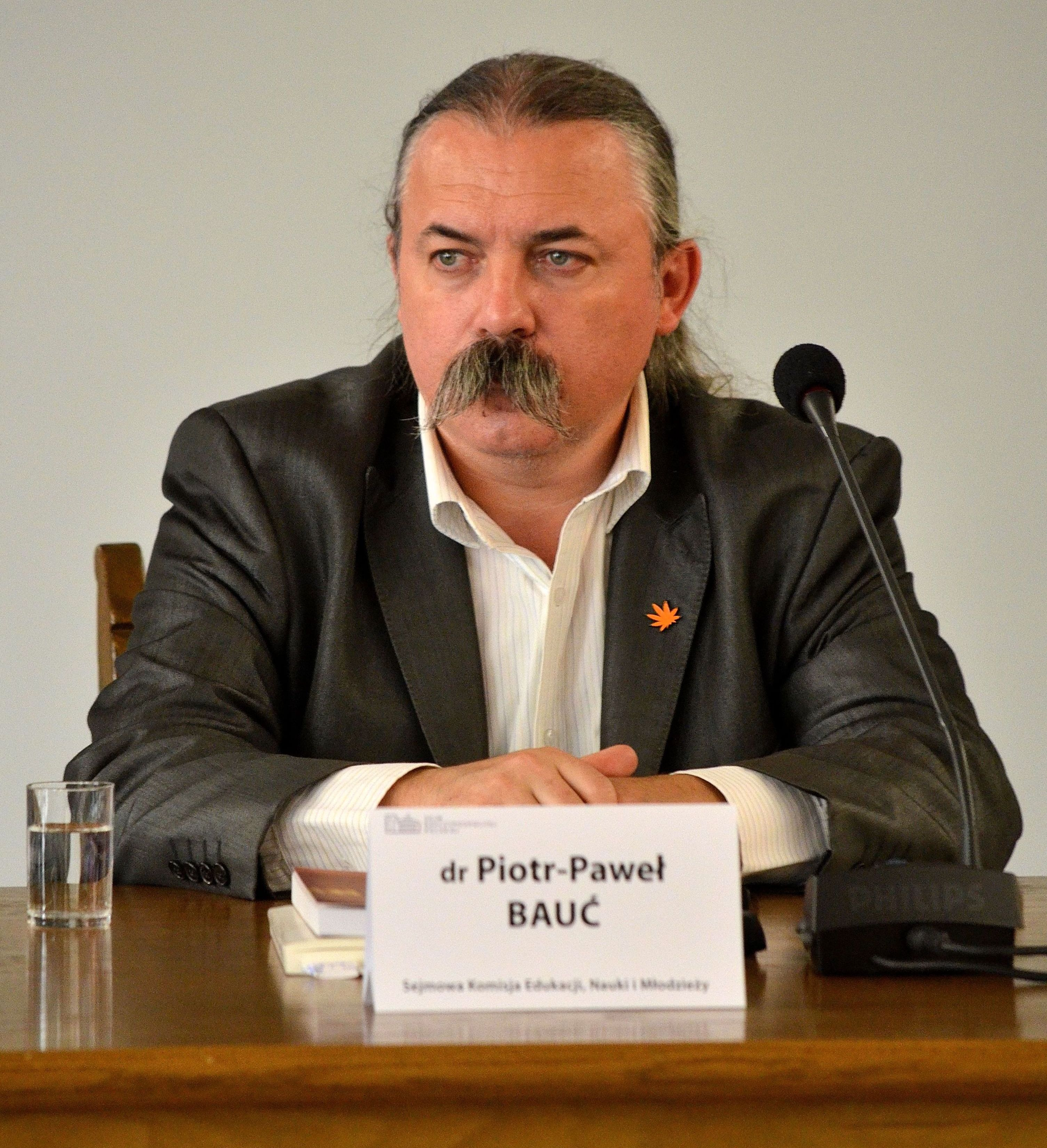 MP Piotr Bauć. Conference "Science and higher education – challenges of contemporary times" in the Polish Sejm